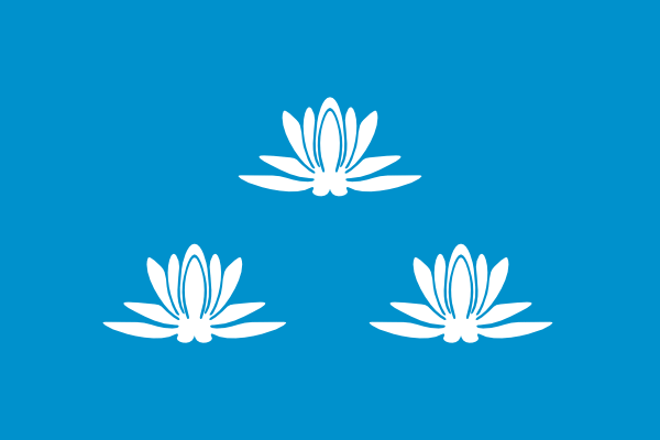 Flag of Novokuybyshevsk, Samara Region, Russia